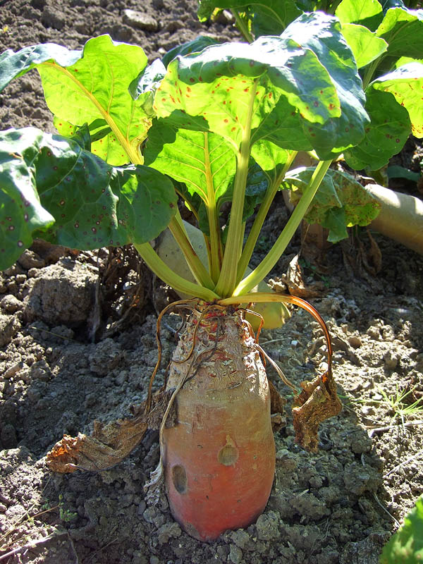 Beta vulgaris! Don't trust in the file name!